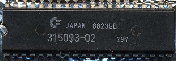 A kickstart 1.3 ROM unit for Amiga computers